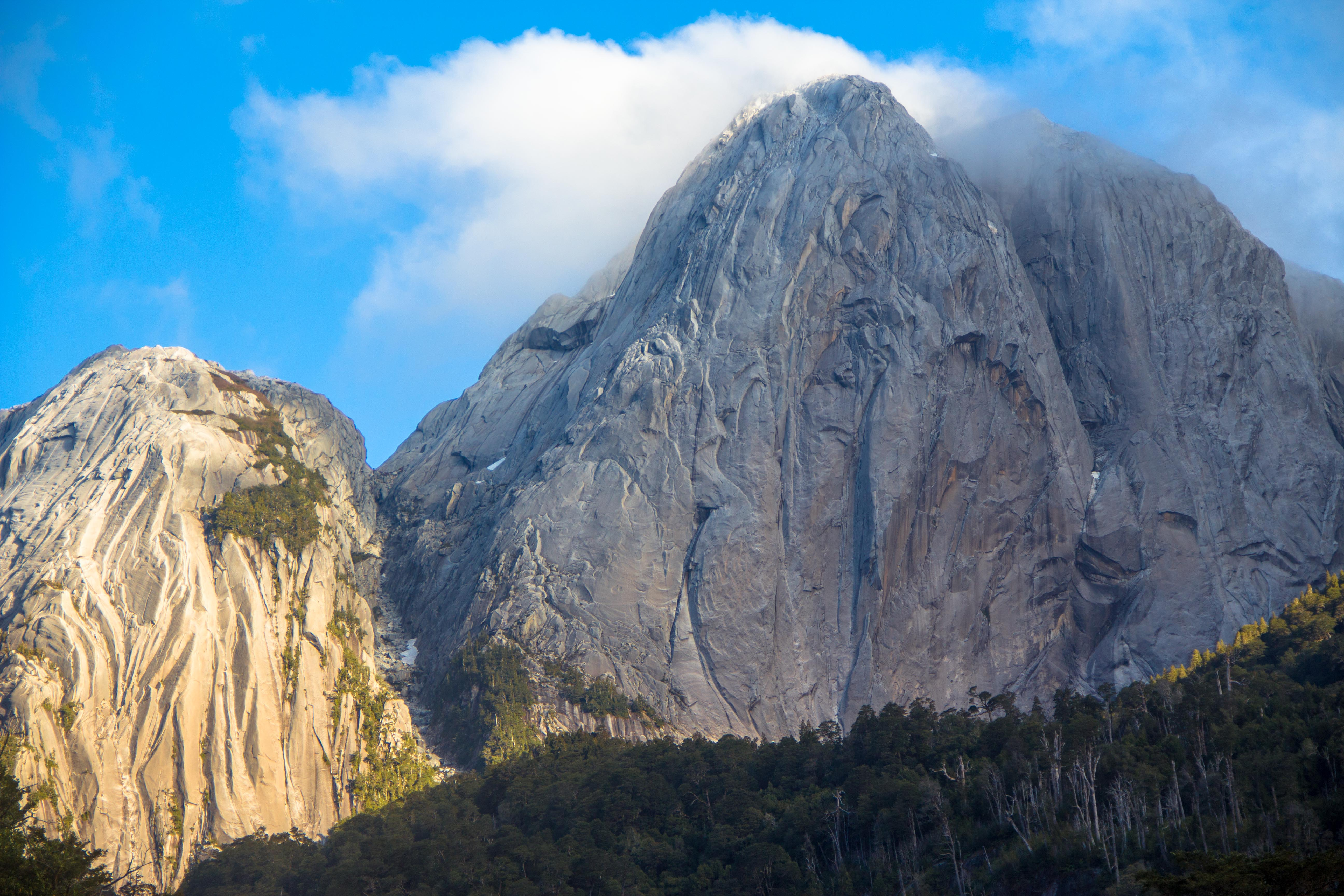 The picture shows magnificent Cerro Trinidad.